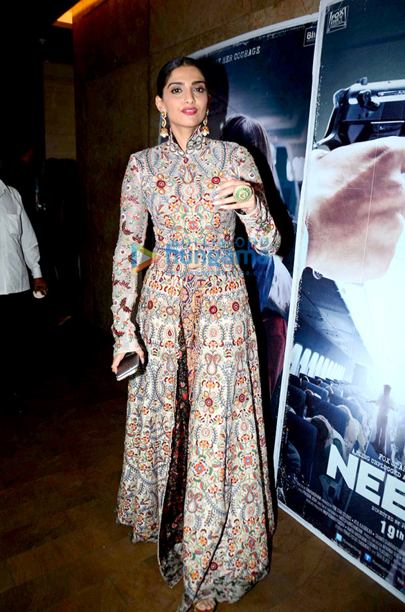 Kapoor at the special screening of 'Neerja' at Lightbox